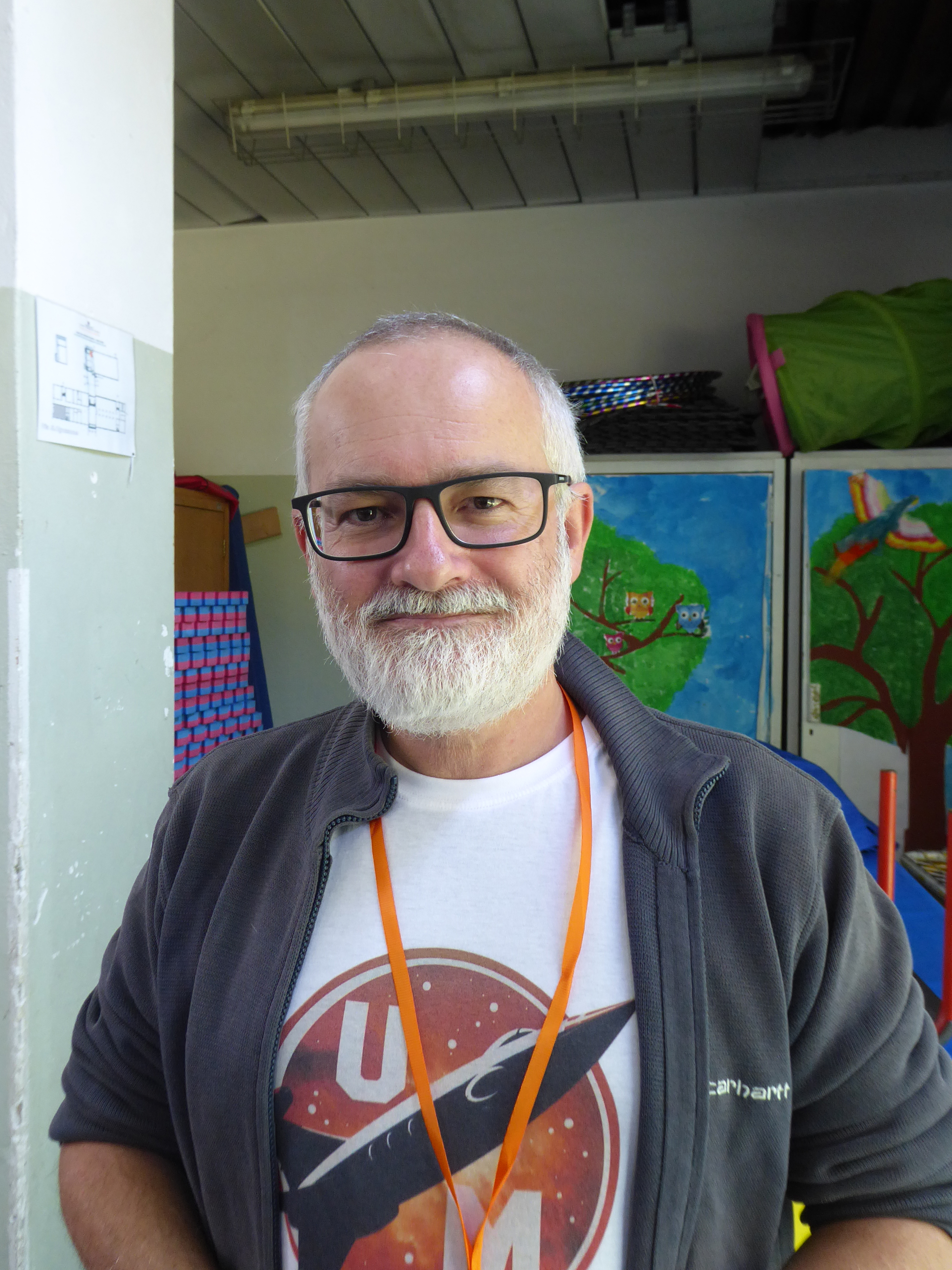 Franco Brambilla at Stranimondi 2019 in Milan